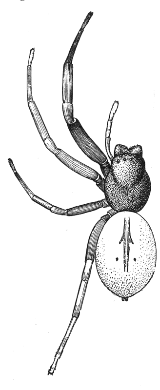 Trachelas ruber, enlarged four times.